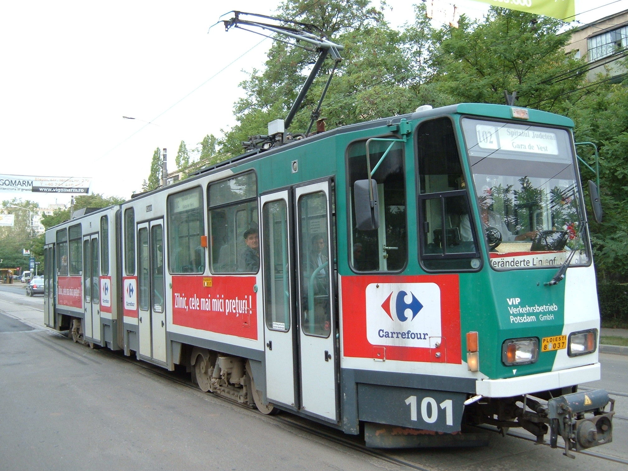 Ex-Potsdam KT4DM tram in Ploiești, Romania